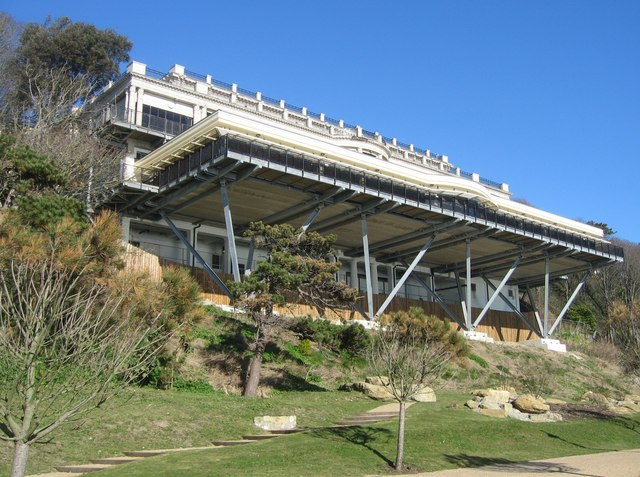 Close up - Leas Cliff Hall